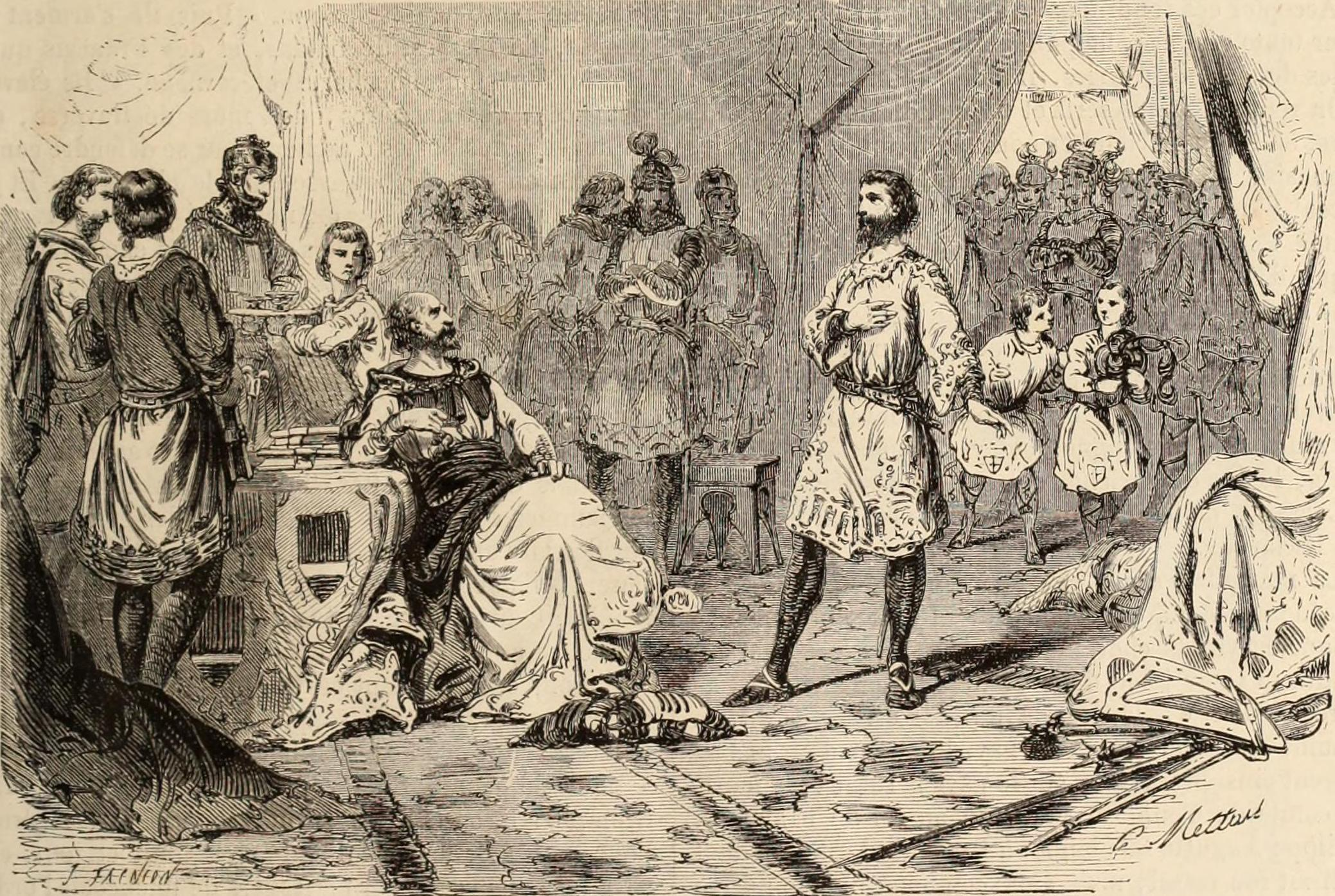 Translation of the legend : Viscount Raymond Roger arrested by order of the legate (1209) Illustration from Histoire populaire de la France, vol. 1, Paris, G. Baillière et cie, 1880 (2nd edition), p. 269.